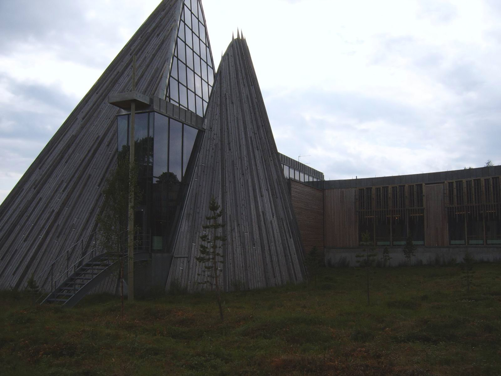 Outside of the Norwegian Sami parliament, samediggi, in Karasjok.